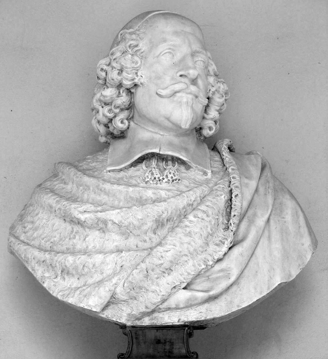 Bust of Mazarin by Louis Lerambert (Bibliothèque Mazarine)